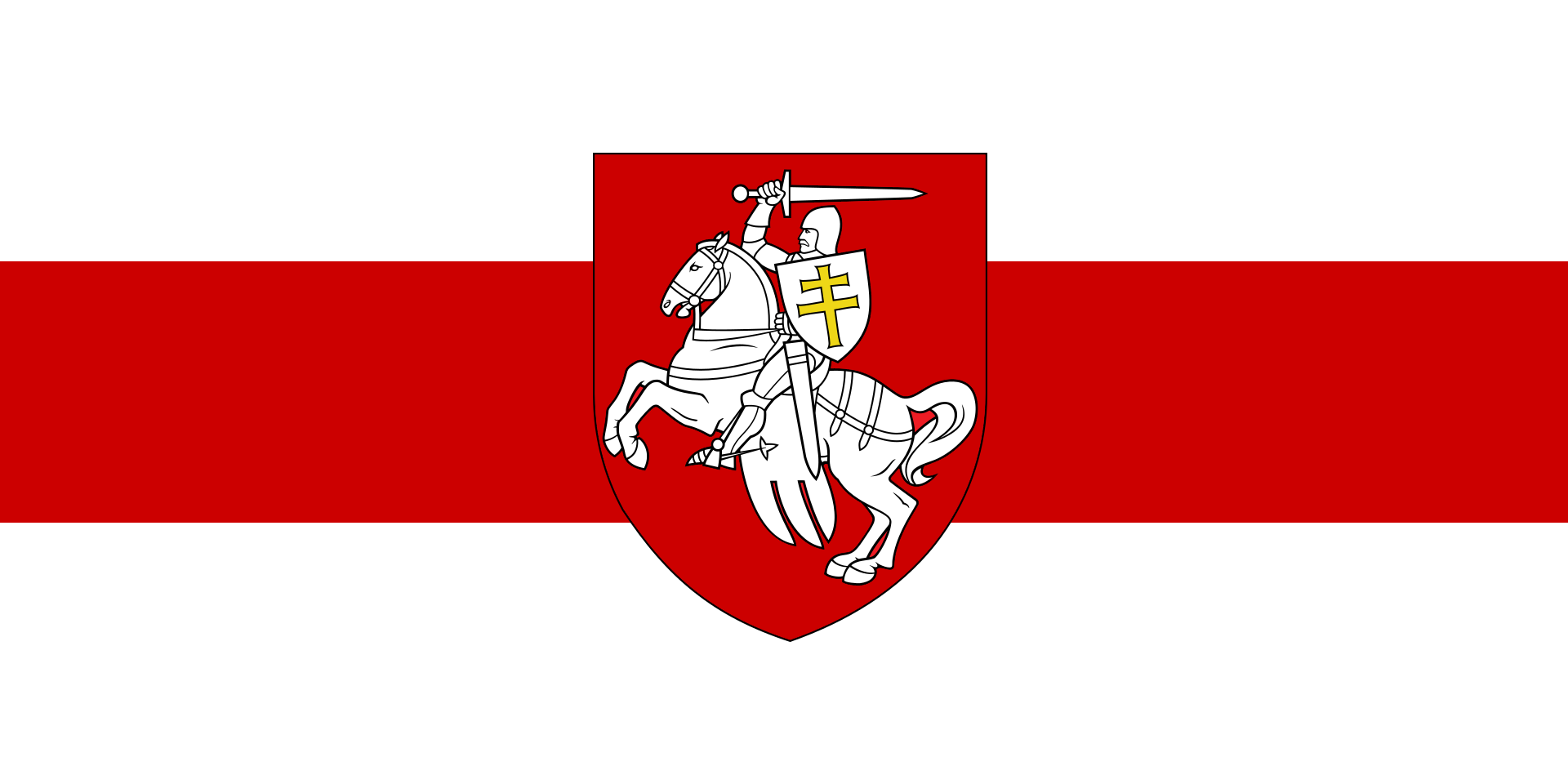 Flag of Belarus (1918, 1991–1995) with coat of arms of Belarus used between 1991 and 1995